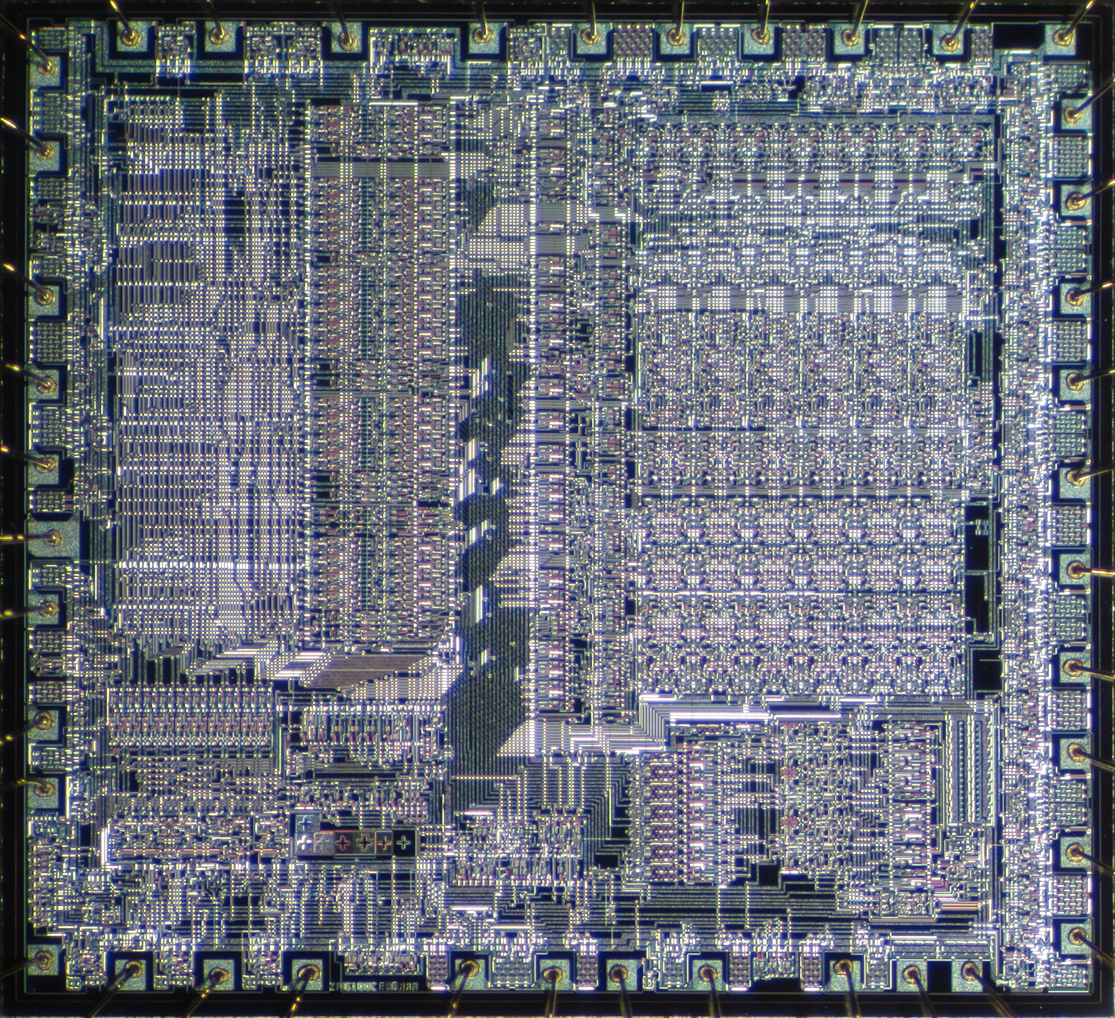 Die shot of Intersil 6100 microprocessor (IM6100IDL).